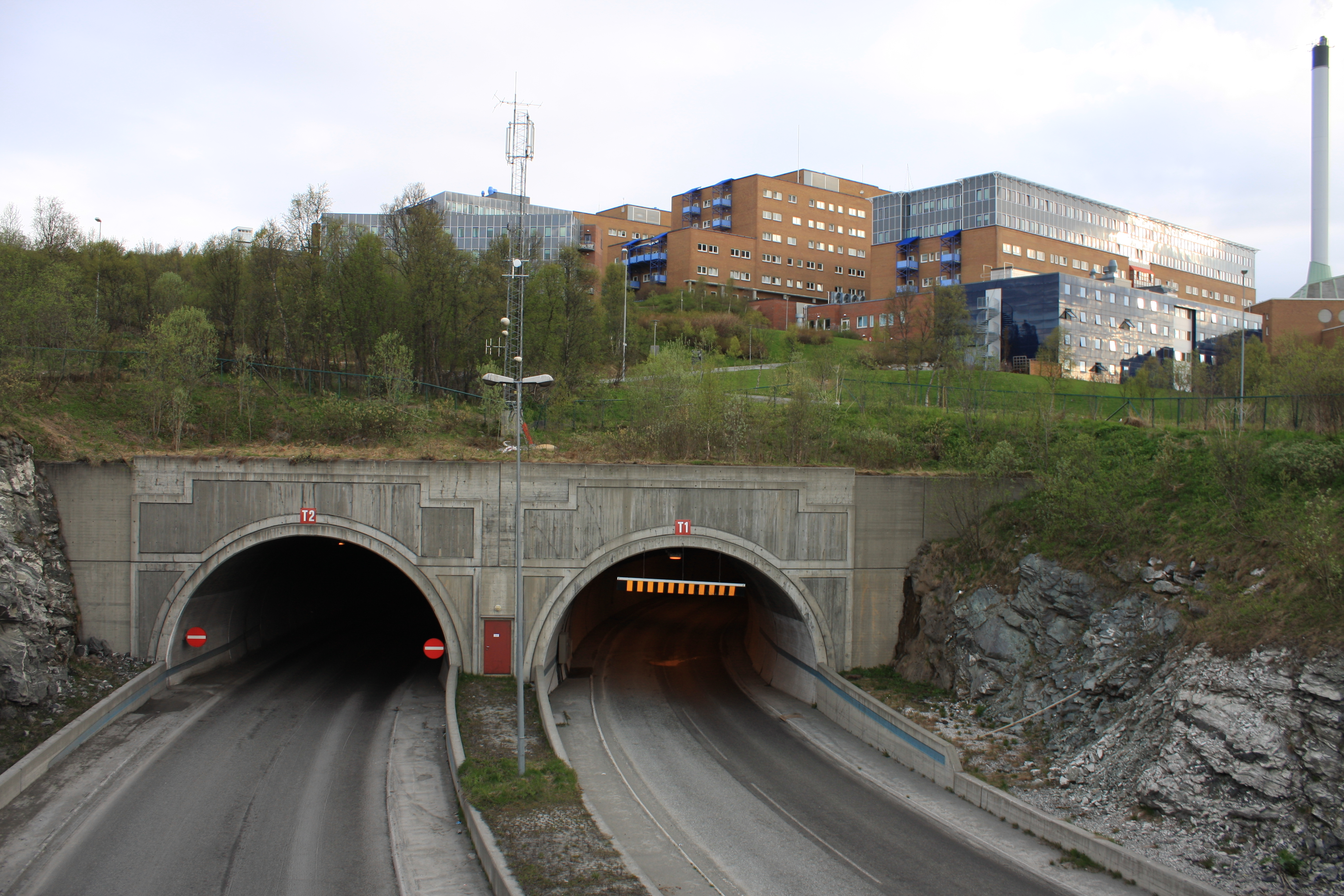 Tromsøysundtunnelen (Undersea tunnel) on the european route E8 in Tromsø, Norway. The photo is of the entrance on the Tromsøya (island) side.